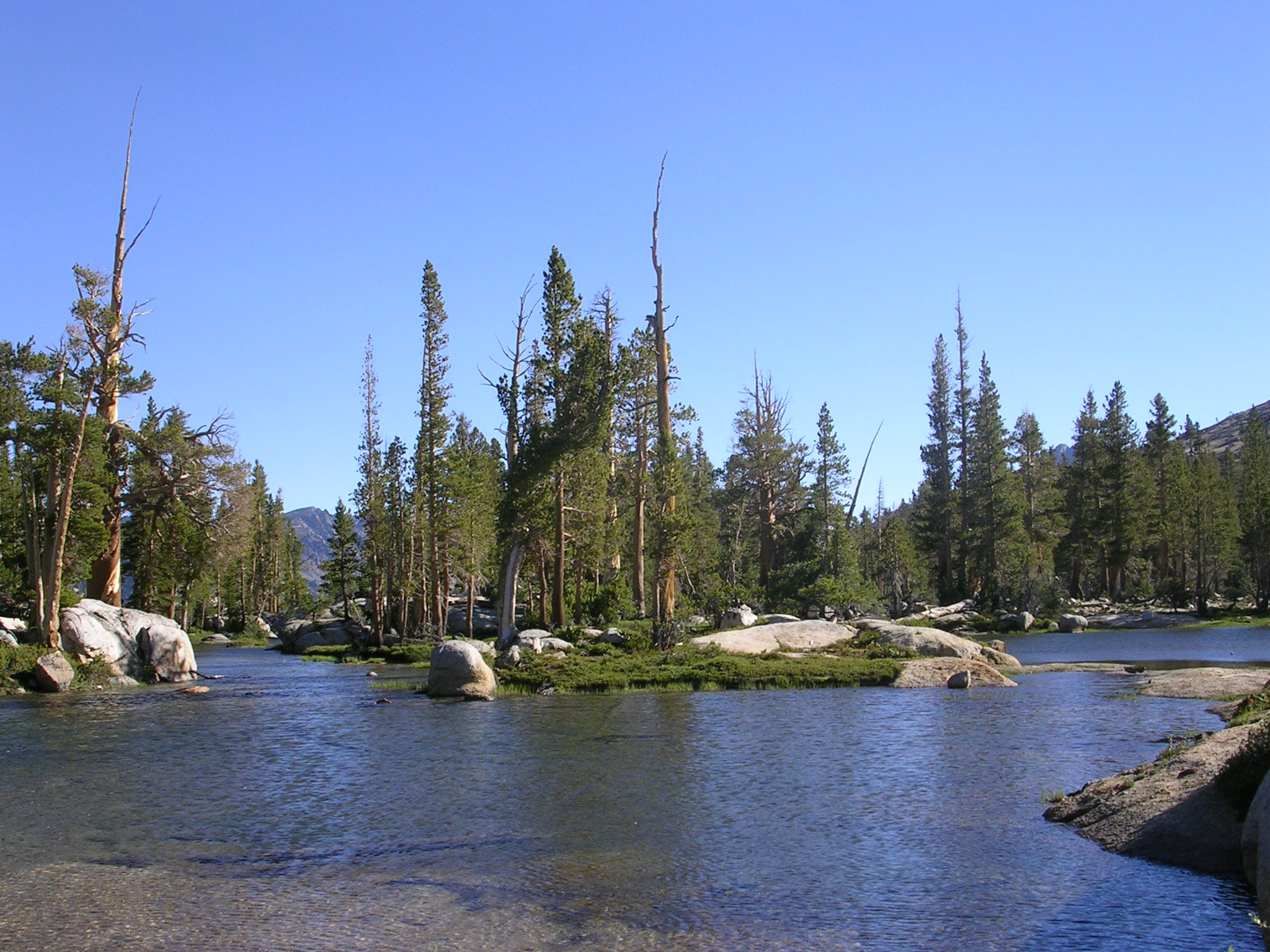 A small lake in the John Muir Wilderness of California.